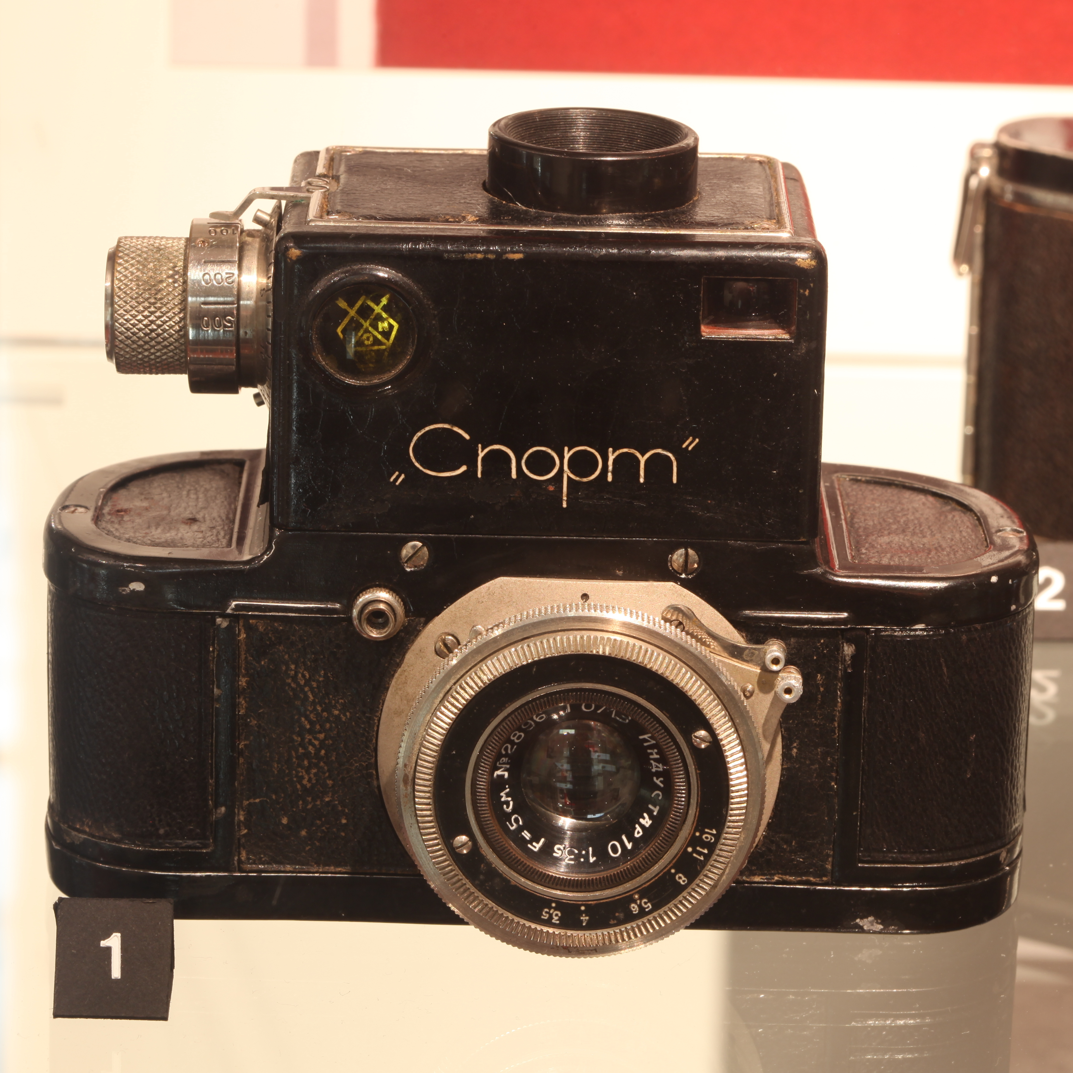 Sport camera (1935), the first small format reflex camera